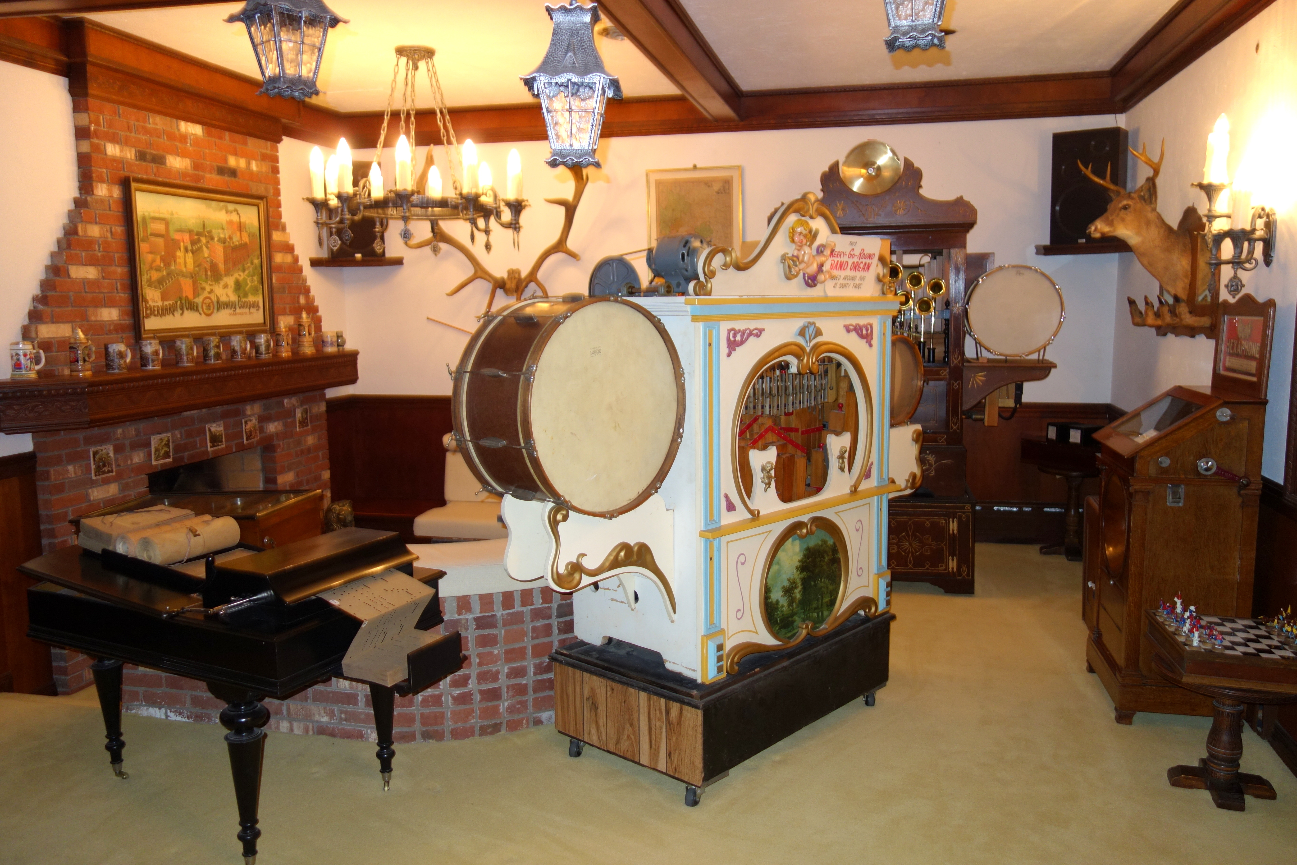 Bayernhof Museum, 225 St. Charles Place, O'Hara Township, Pittsburgh, Pennsylvania, USA.